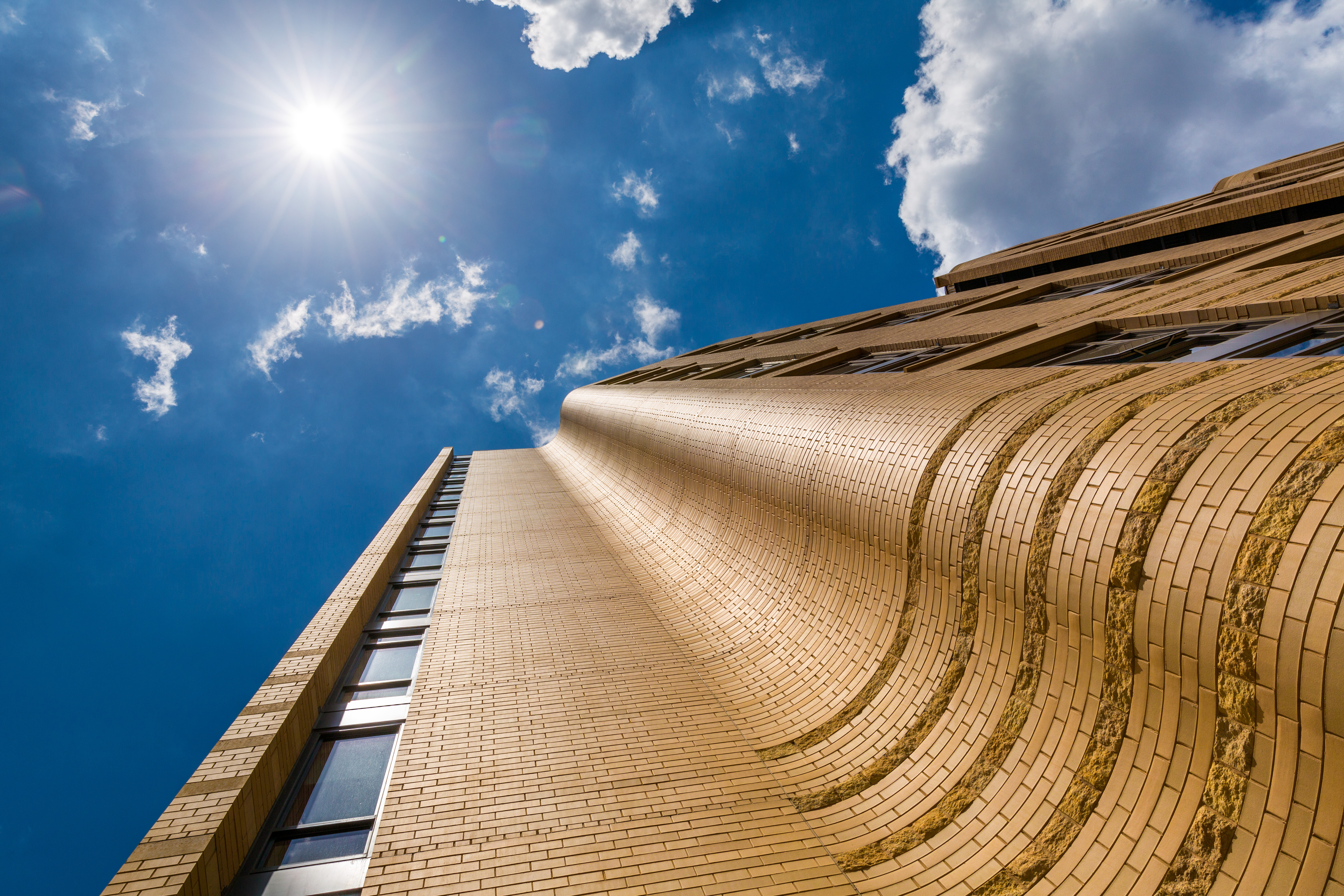 Glen-Gery Park Chelsea Apartments